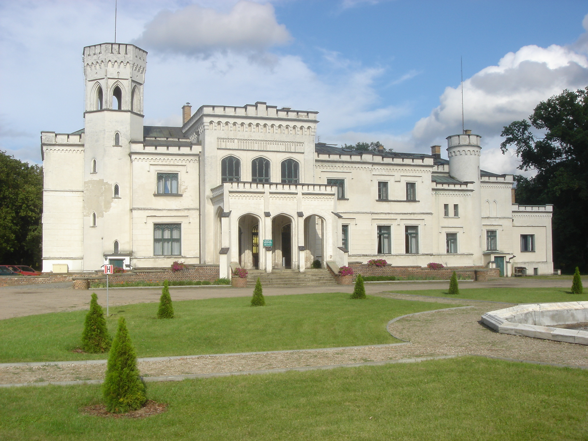 Będlewo Conference Center of the Institute of Mathematics of the Polish Academy of Sciences in Bedlewo, Poland